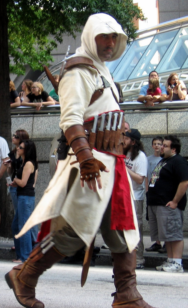 This photo was taken on August 30, 2008 in Downtown, Atlanta, GA, US, using a Canon PowerShot A520.